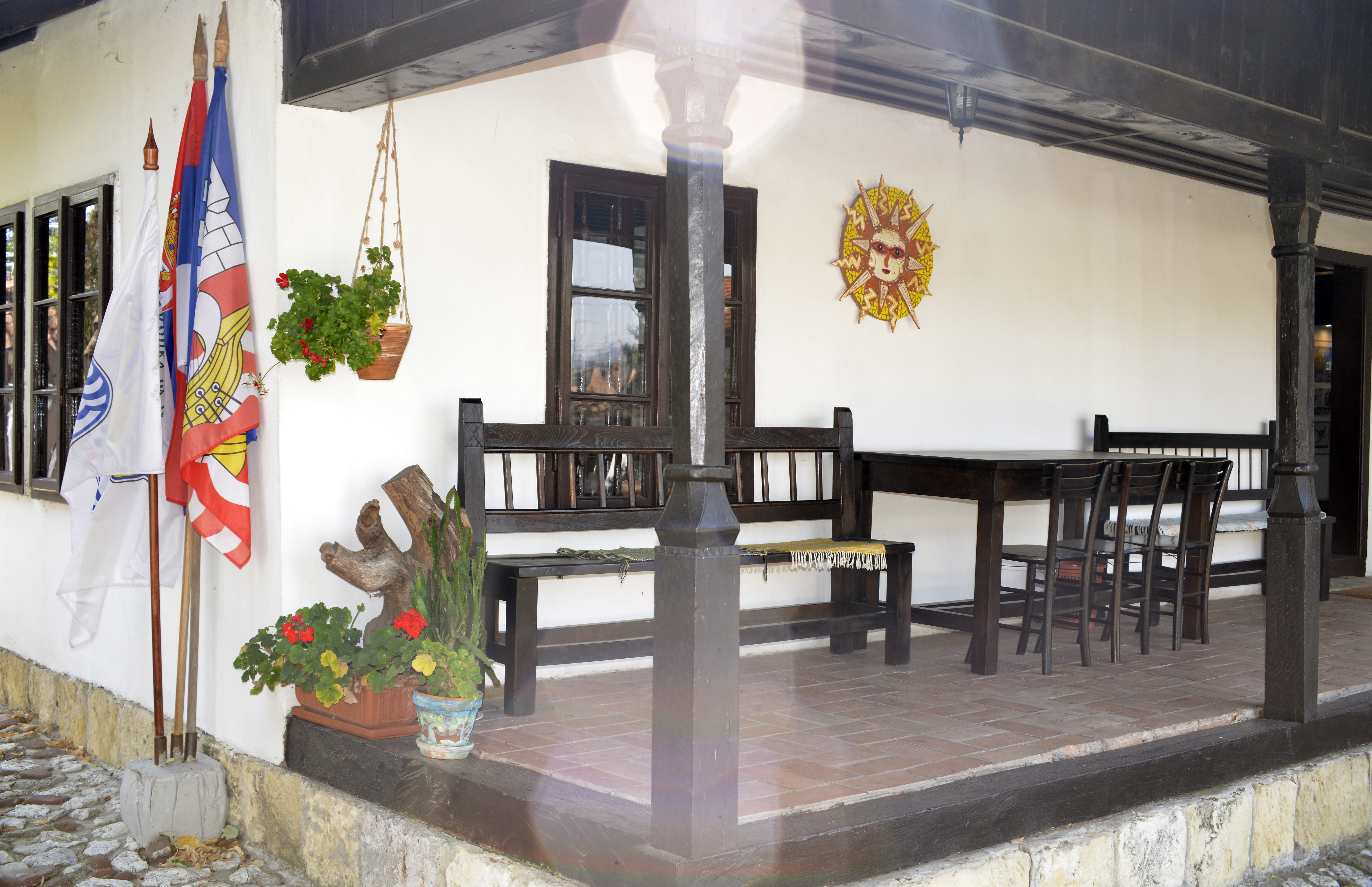 Rancic's house in Grocka, where the Center for Culture Grocka is located